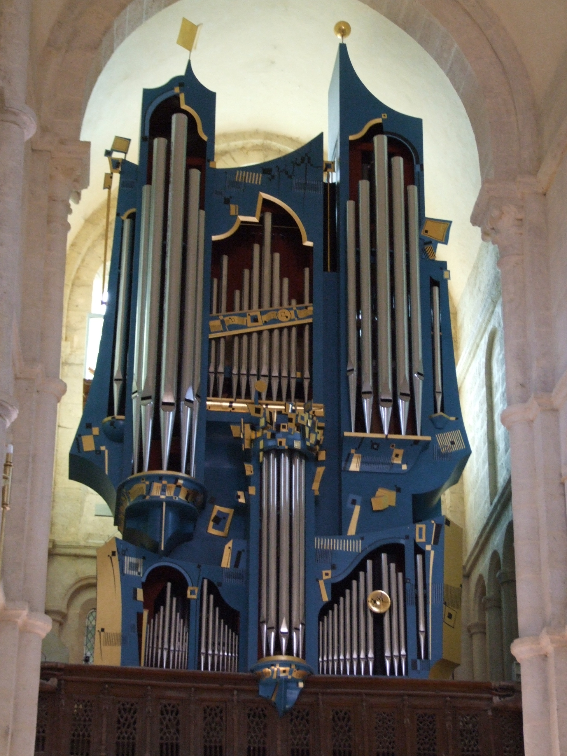 Saint-Andoche basilica, Saulieu, Burgundy, FRANCE